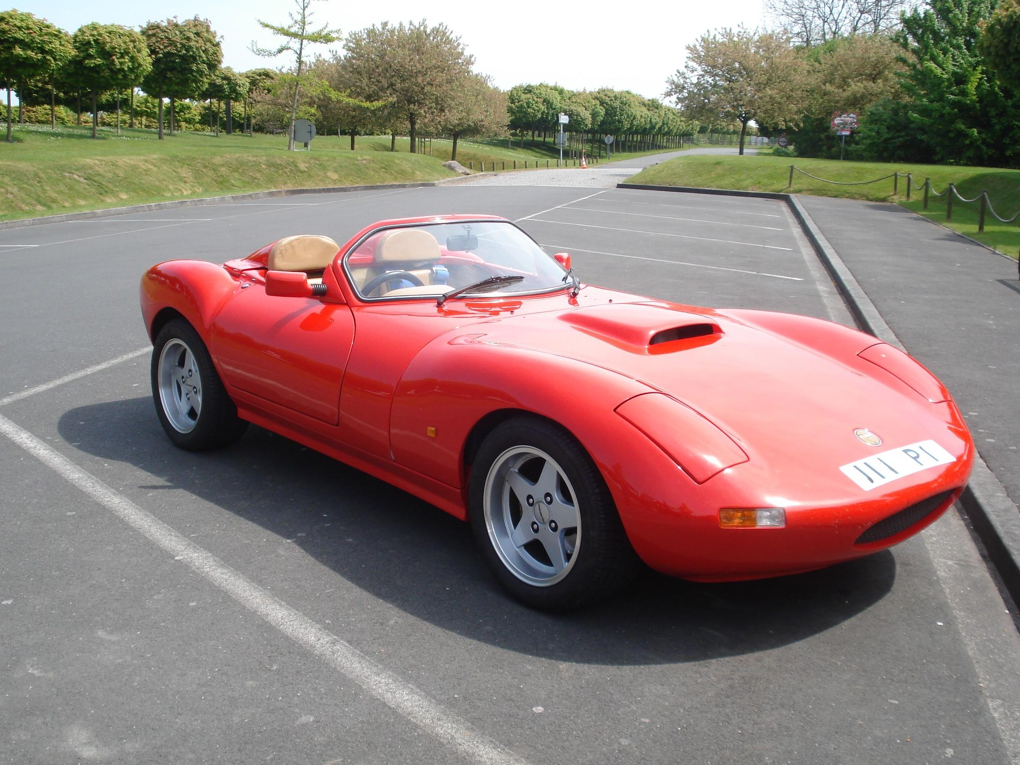 Ginetta G33 lightweight Roadster with V8 engine, built in 1992, total number built approx. 90 in Scunthorpe, GB